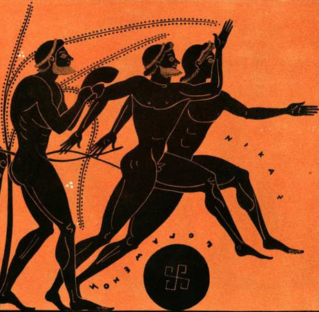 Race